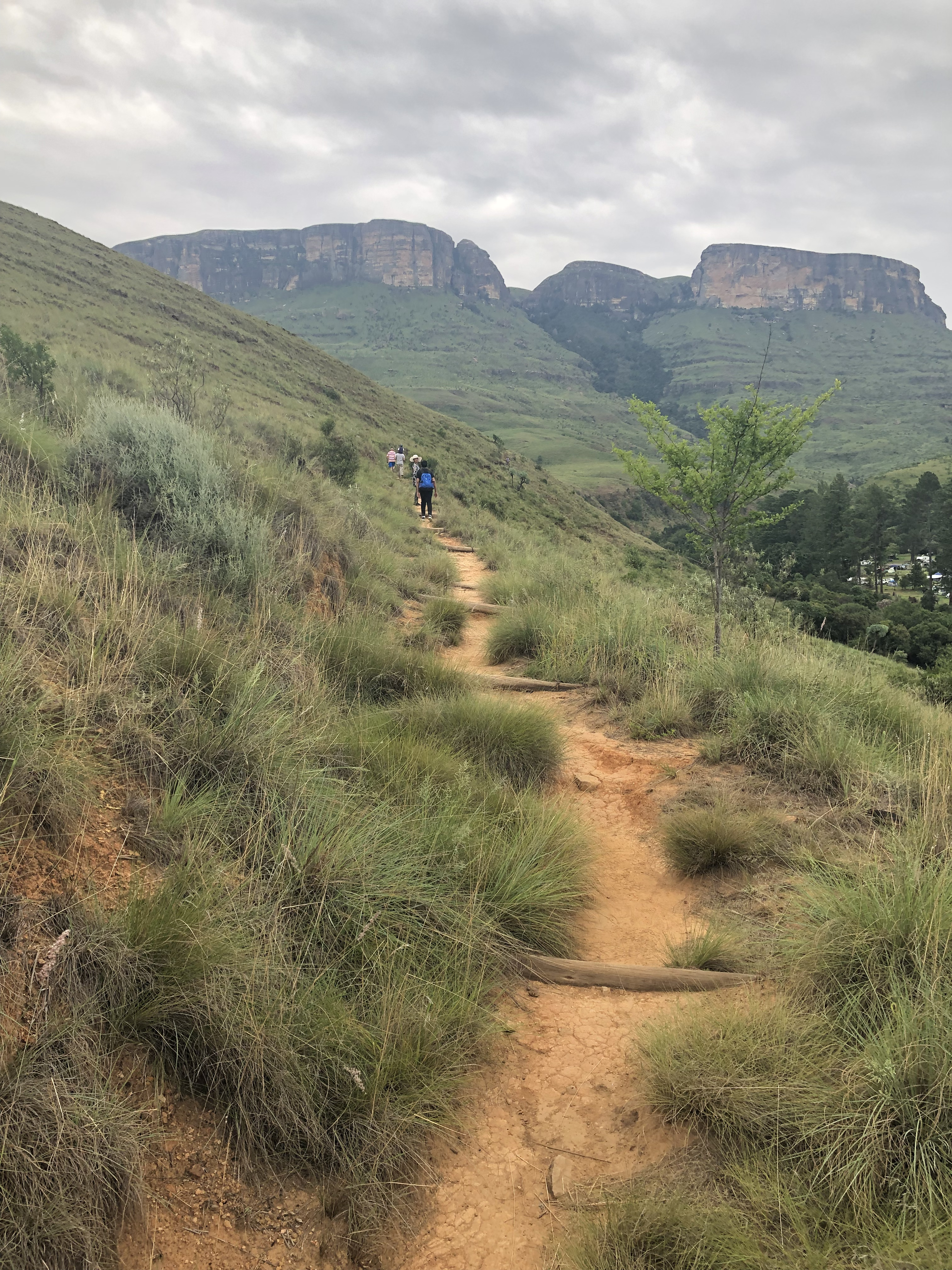 This is an image with the theme "Africa on the Move or Transport" from: South Africa